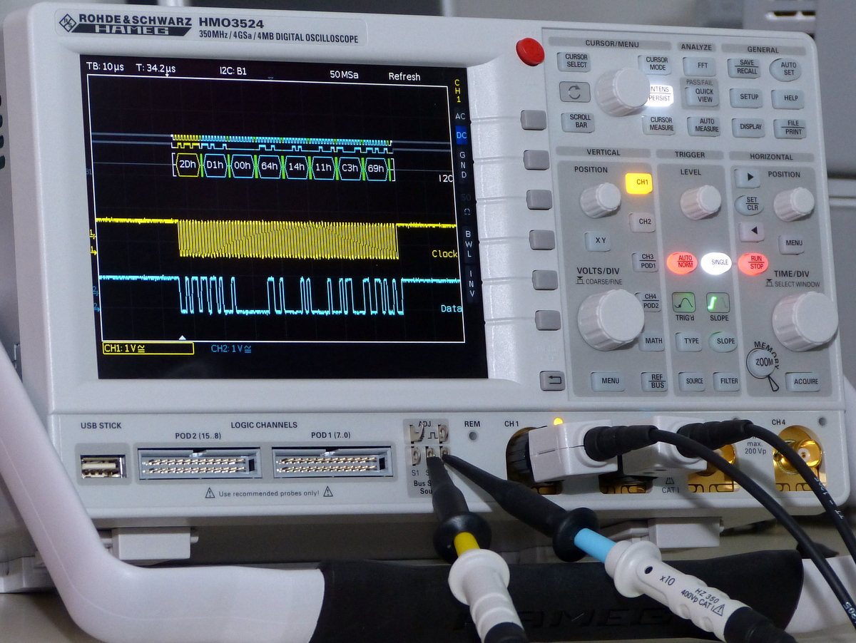 HAMEG HMO3524, 350MHz, 4ch analog, 16ch digital